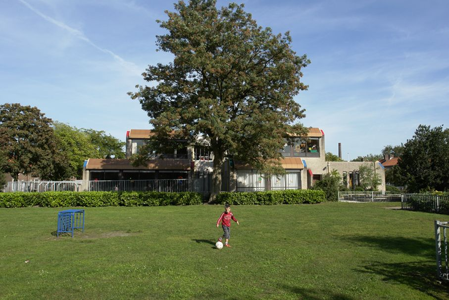 The exterior of IST primary's new location since 2015, Johannes ter Horststraat 30 in Enschede, Netherlands.